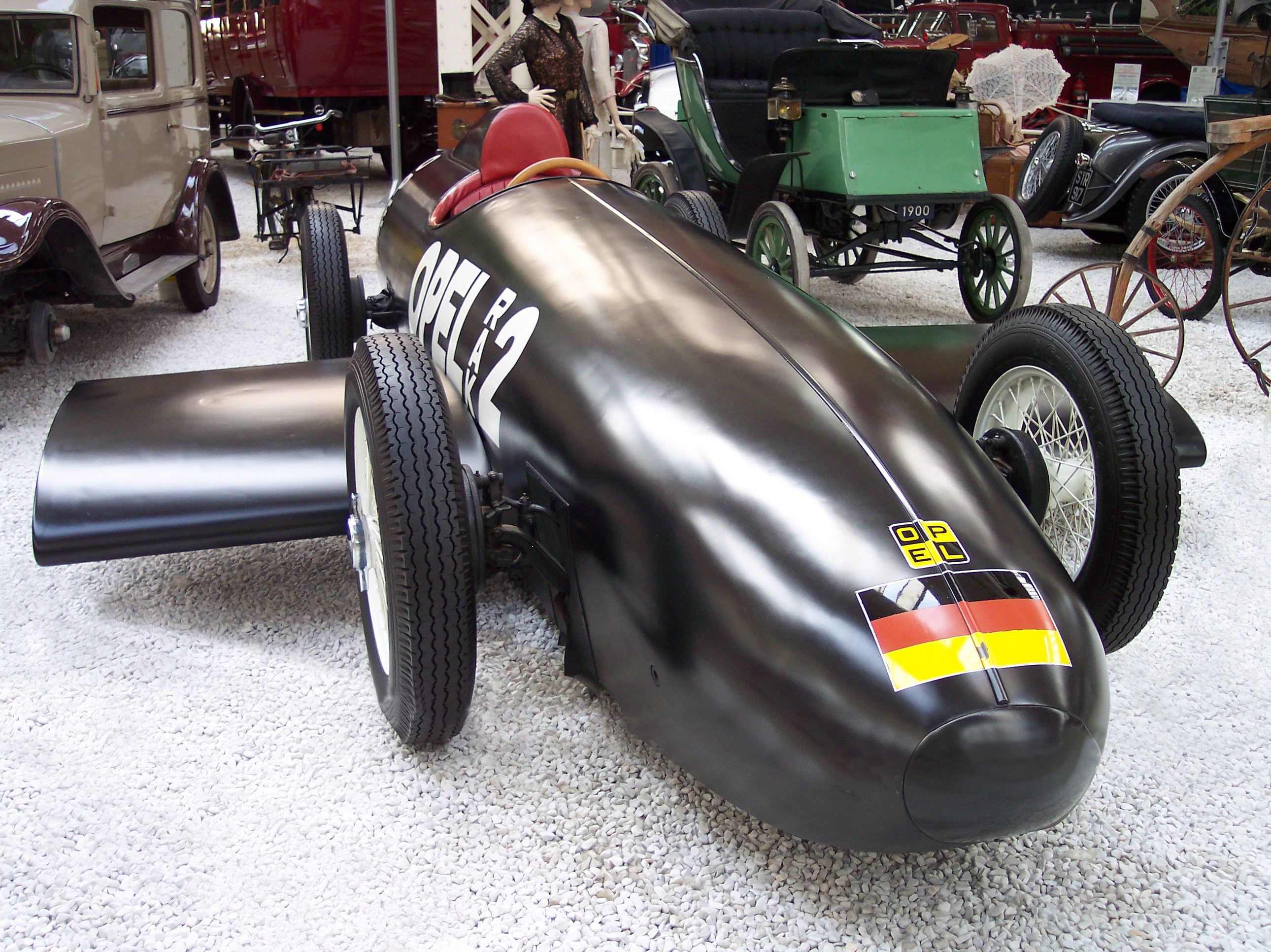 A 1928 Opel RAK2 at the Technikmuseum Speyer. Unlike the RAK2 in Berlin, this car bears the colours of republican Germany. It has been noted, however, that several exhibits in Speyer are not historically correct.